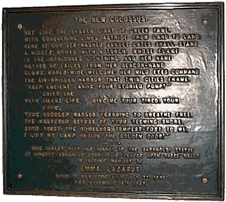 "New Colossus" plaque, public domain. From